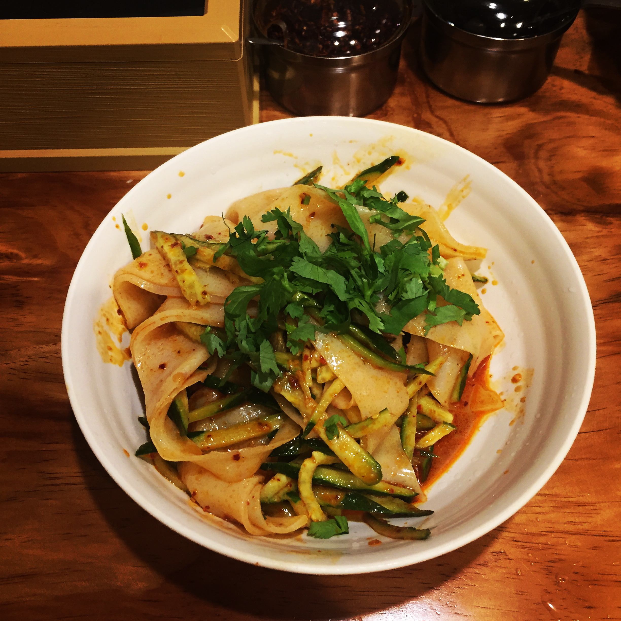 This photo was taken at a Chinese food shop, XIAO WEI YA BO, Hyakunincho, Shinjuku City, Tokyo.